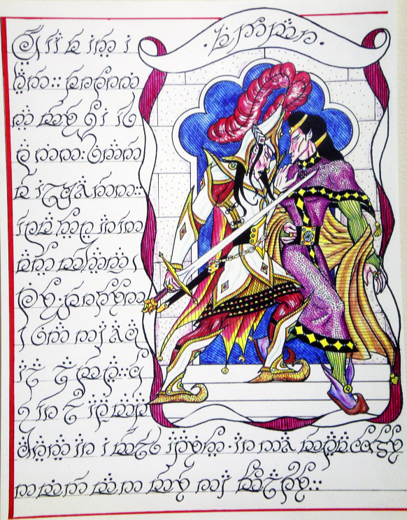 Feanor and Fingolfin from J. R. R. Tolkien's work.